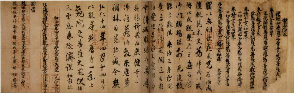 Saga tennō shinkan kōjōkaichō (嵯峨天皇宸翰光定戒牒). Letter in the emperor's own handwriting to the priest Kōjō (光定?), after his vow to follow the precepts, certifying that Kōjō had undergone the rite known as Bosatsu-kai. Handscroll, ink on paper, 37.0 cm × 148.0 cm (14.6 in × 58.3 in) located at Enryaku-ji, Ōtsu, Shiga. The scroll has been designated as National Treasure of Japan in the category ancient documents.